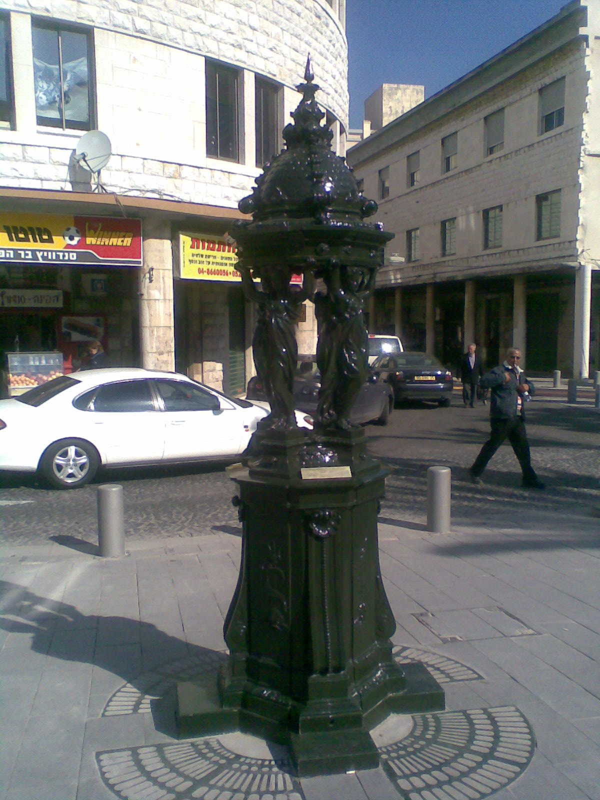 Wallace fountain, Place de Paris, Haifa